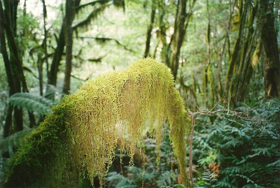 Papillaria_Cloudforest-Mt_Budawang, NSW, Australia photo taken in cool temperate cloud rainforest, in gully, east of mountain summit. Only 2 tree species in forest: Eucryphia & Black Olive Berry, (Elaeocarpus holopetalus)